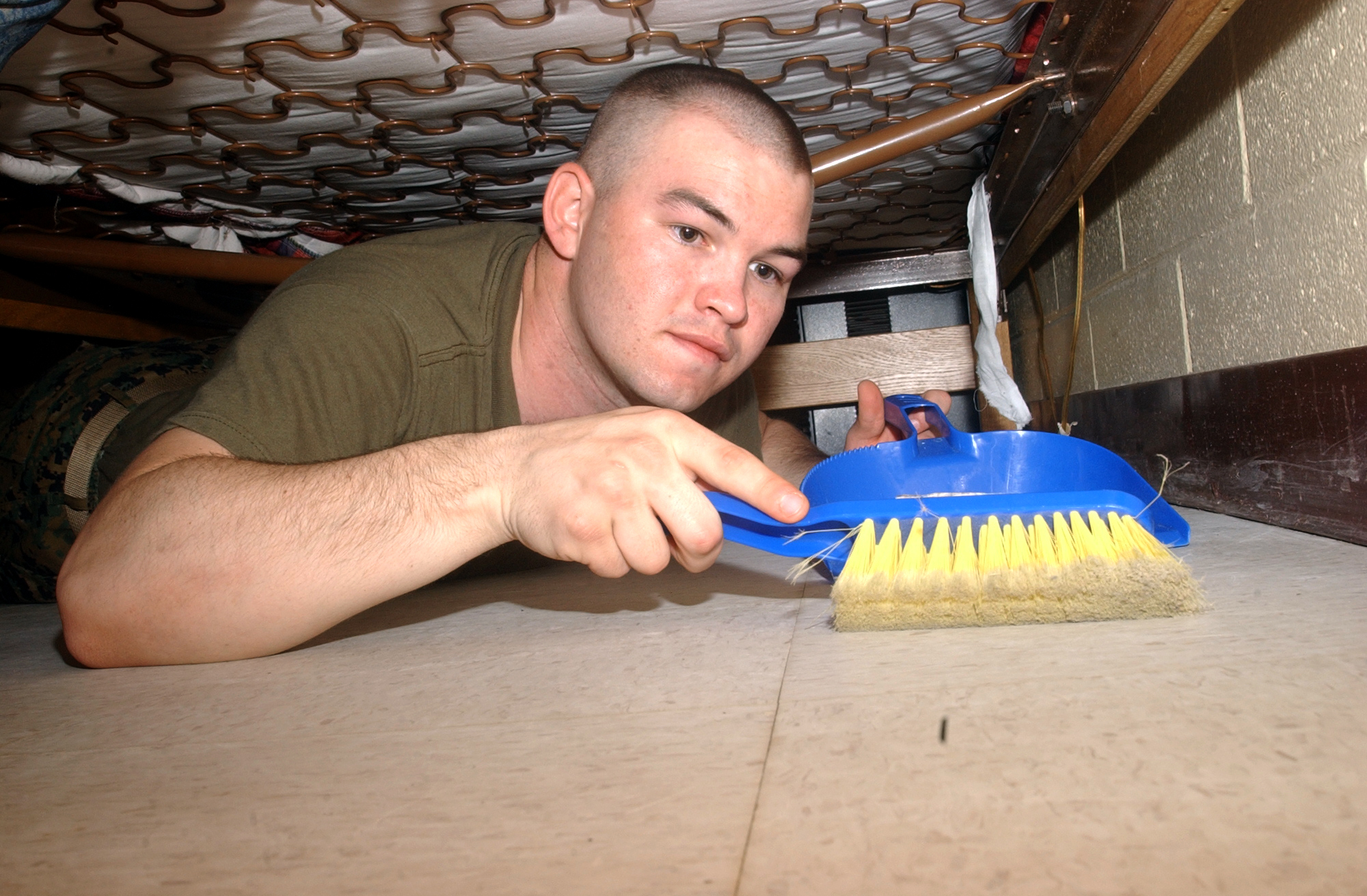 MARINE CORPS BASE CAMP LEJEUNE, N.C. - Pvt. Gary Marcum, an administration clerk with Company A, Headquarters and Support Battalion, Marine Corps Base, sweeps up dirt from under his rack in preparation for the weekly field day inspection. Photo by: Lance Cpl. Adam Johnston